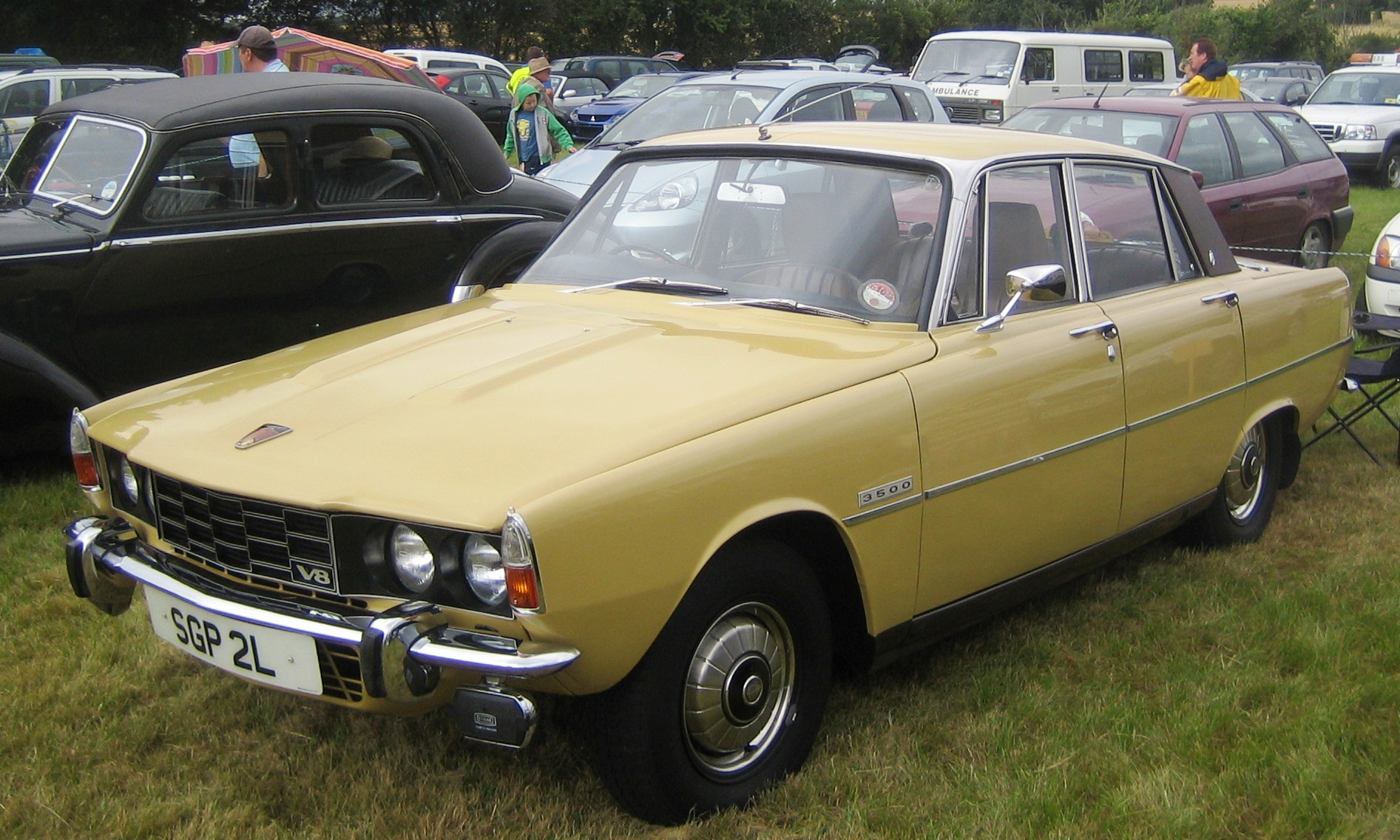 Rover 3500 (P6) registered 1972